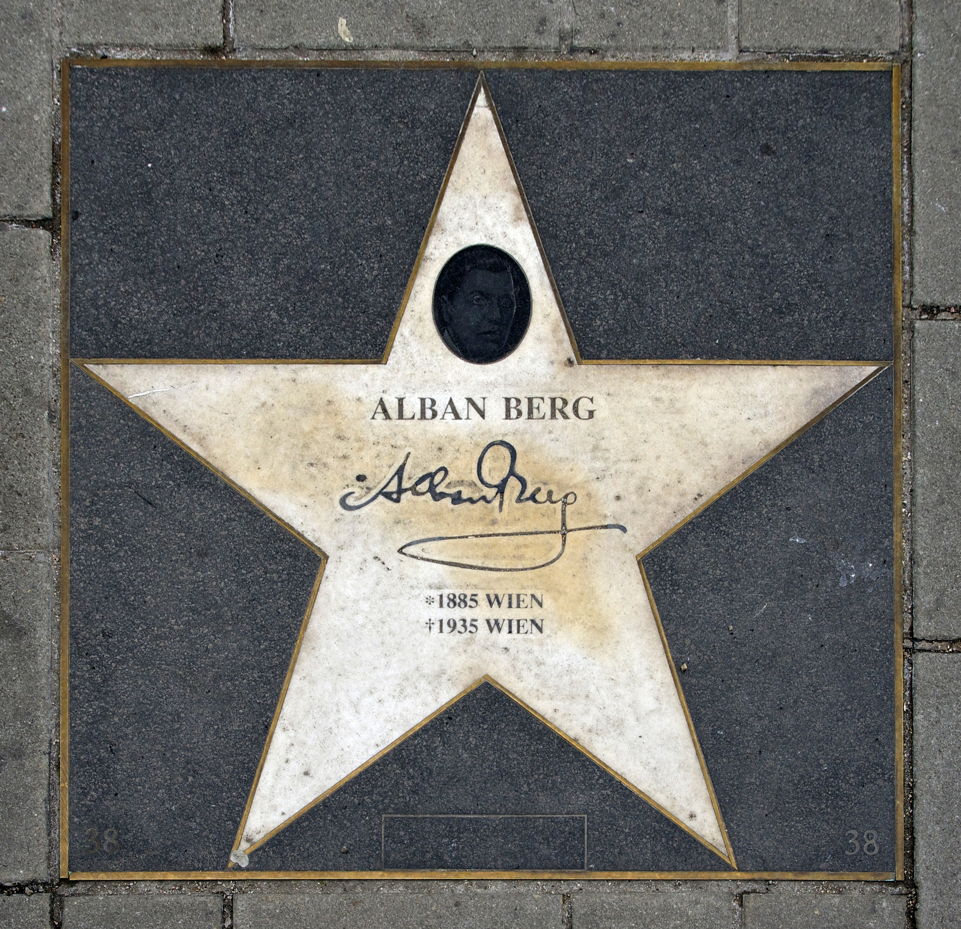 The star of Alban Berg, on the ground in front of the State Opera House, Vienna, Austria